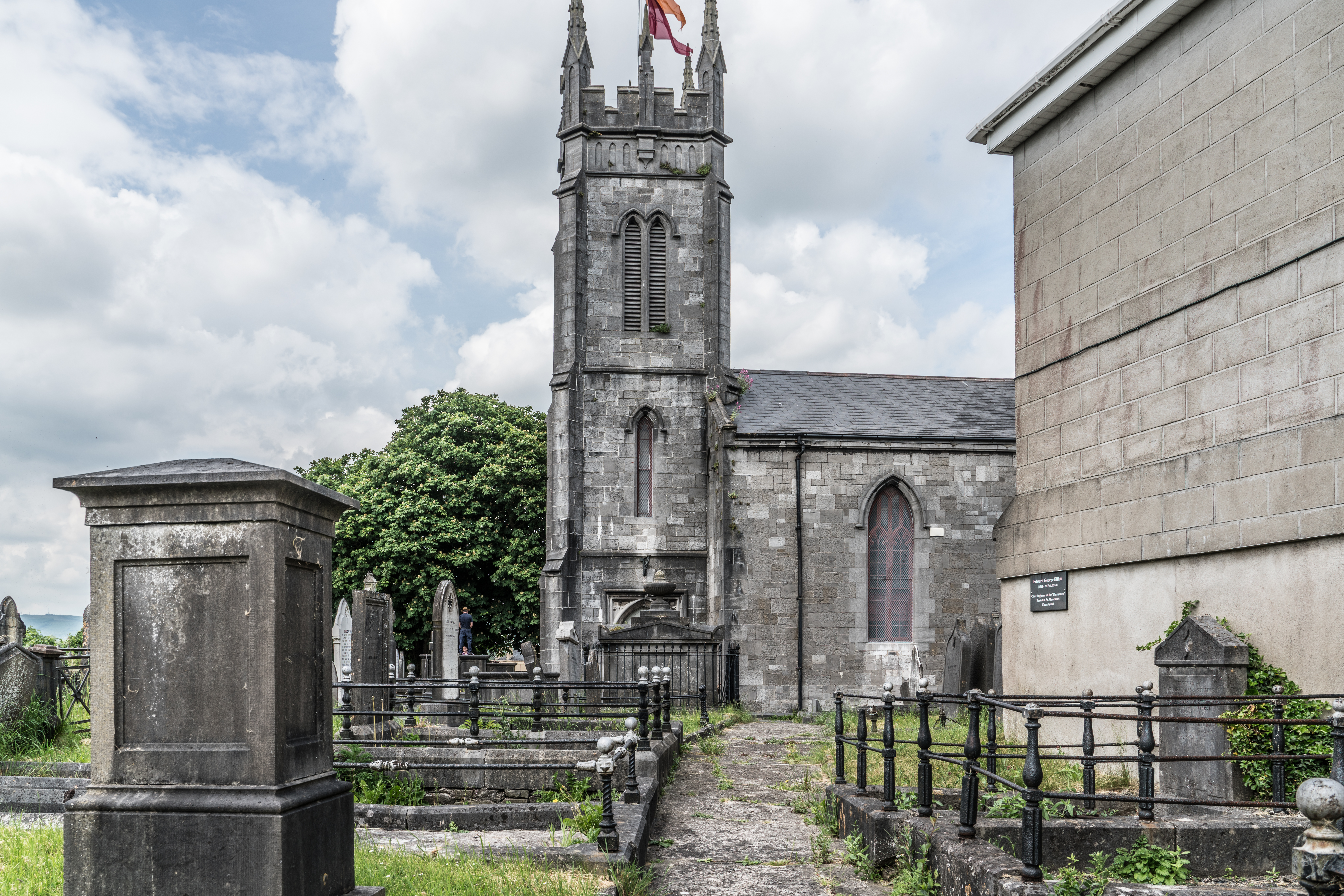 St. Munchin’s Church built in 1827 [Church Of Ireland]